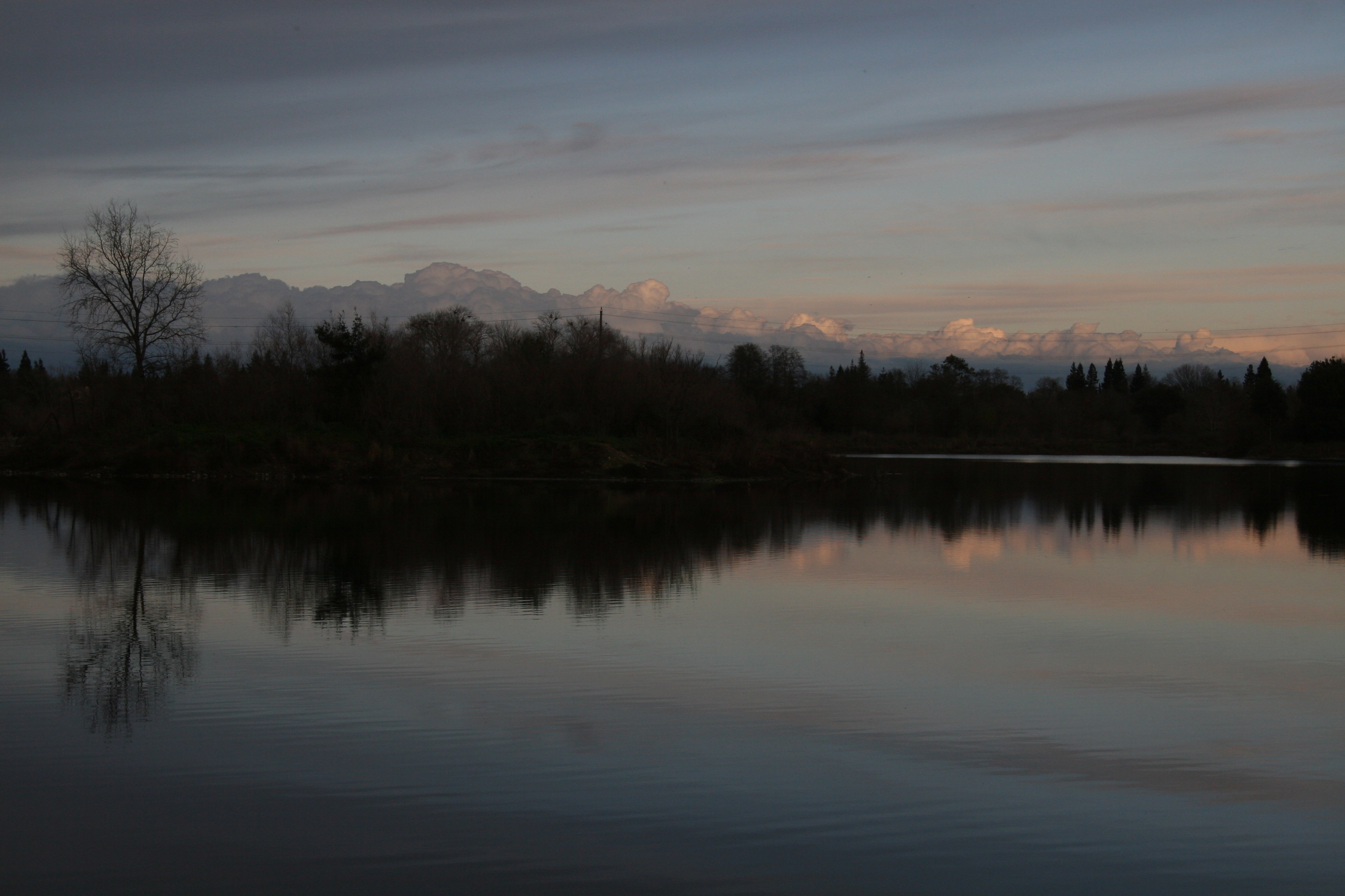 William Pond Park, on the lower American River.